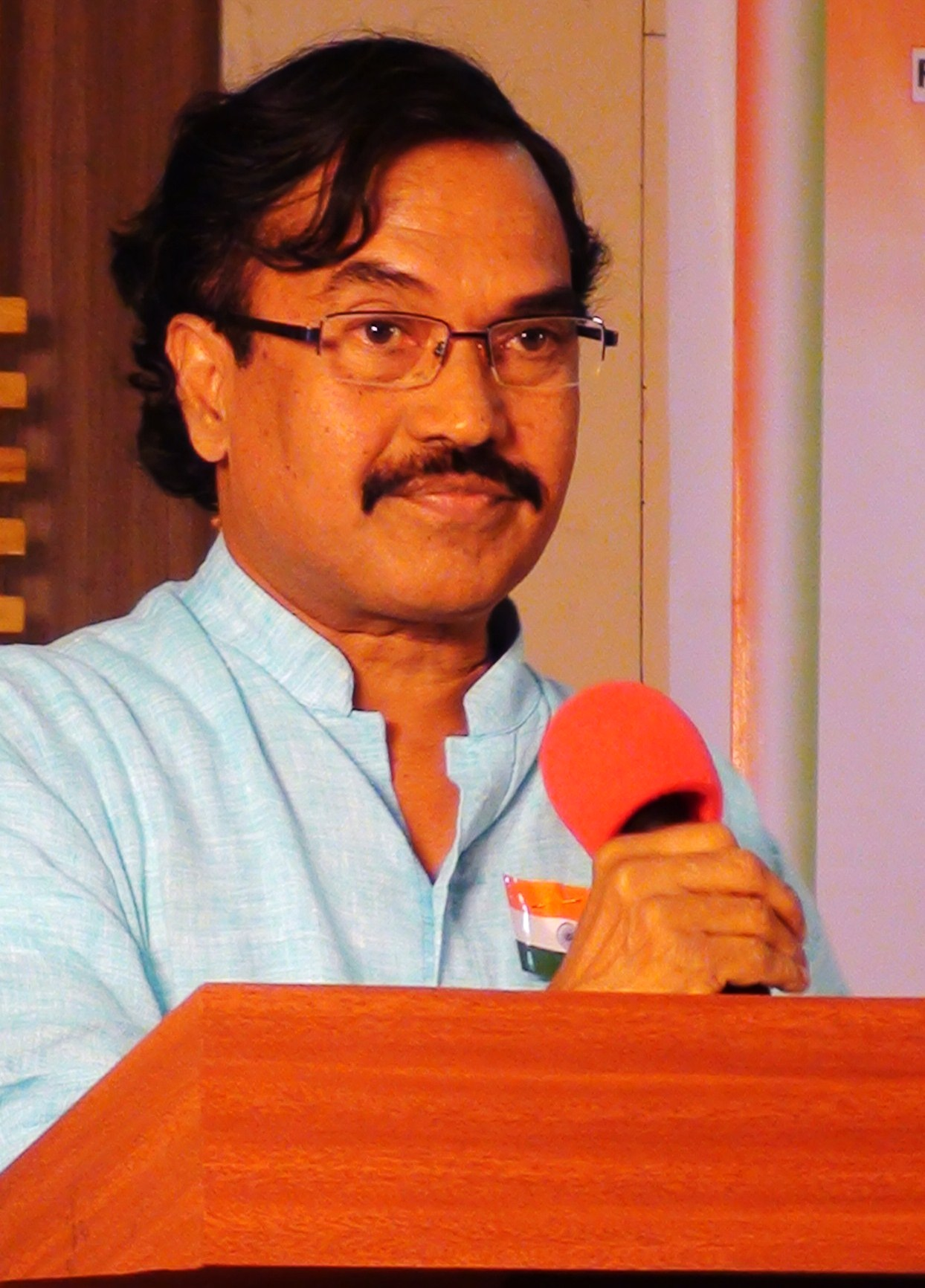 Suddala Ashokteja